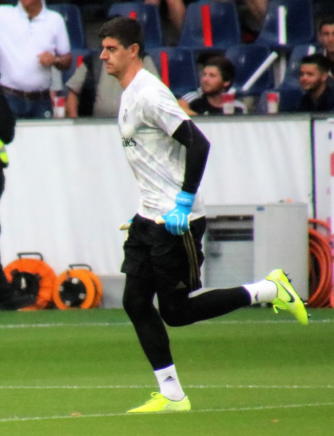 Preseason match of FC Red Bull Salzburg